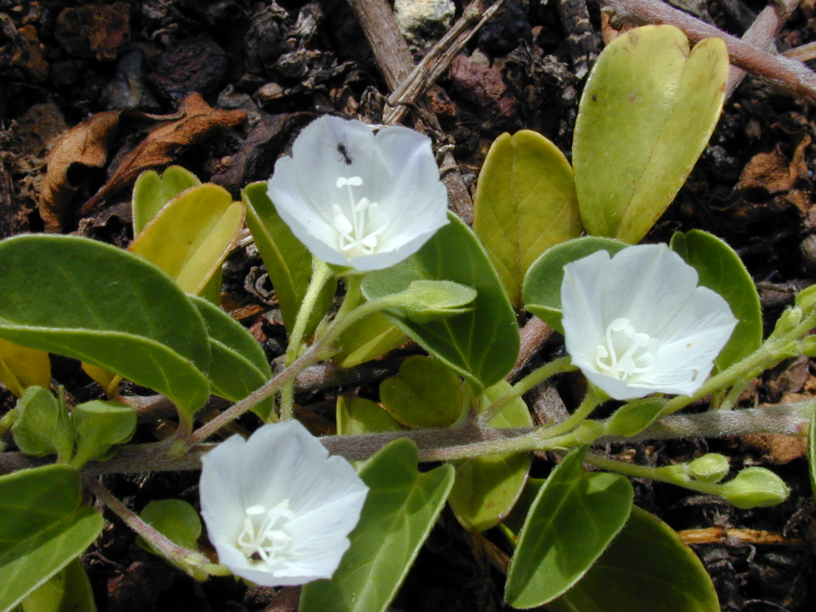 Jacquemontia ovalifolia subsp. sandwicensis (flowers). Location: Maui, Kanaha Beach